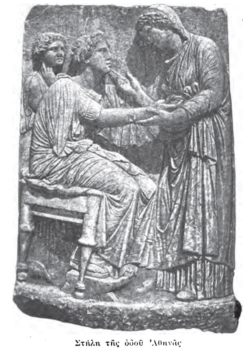 Hestia (1876) Author: Diomedes, Paulos Subject: Greek literature, Modern; Greek periodicals Publisher: [Athēnēsi : s.n. Year: 1894 Possible copyright status: NOT_IN_COPYRIGHT Language: Greek Digitizing sponsor: Google Book from the collections of: Harvard University Collection: americana]